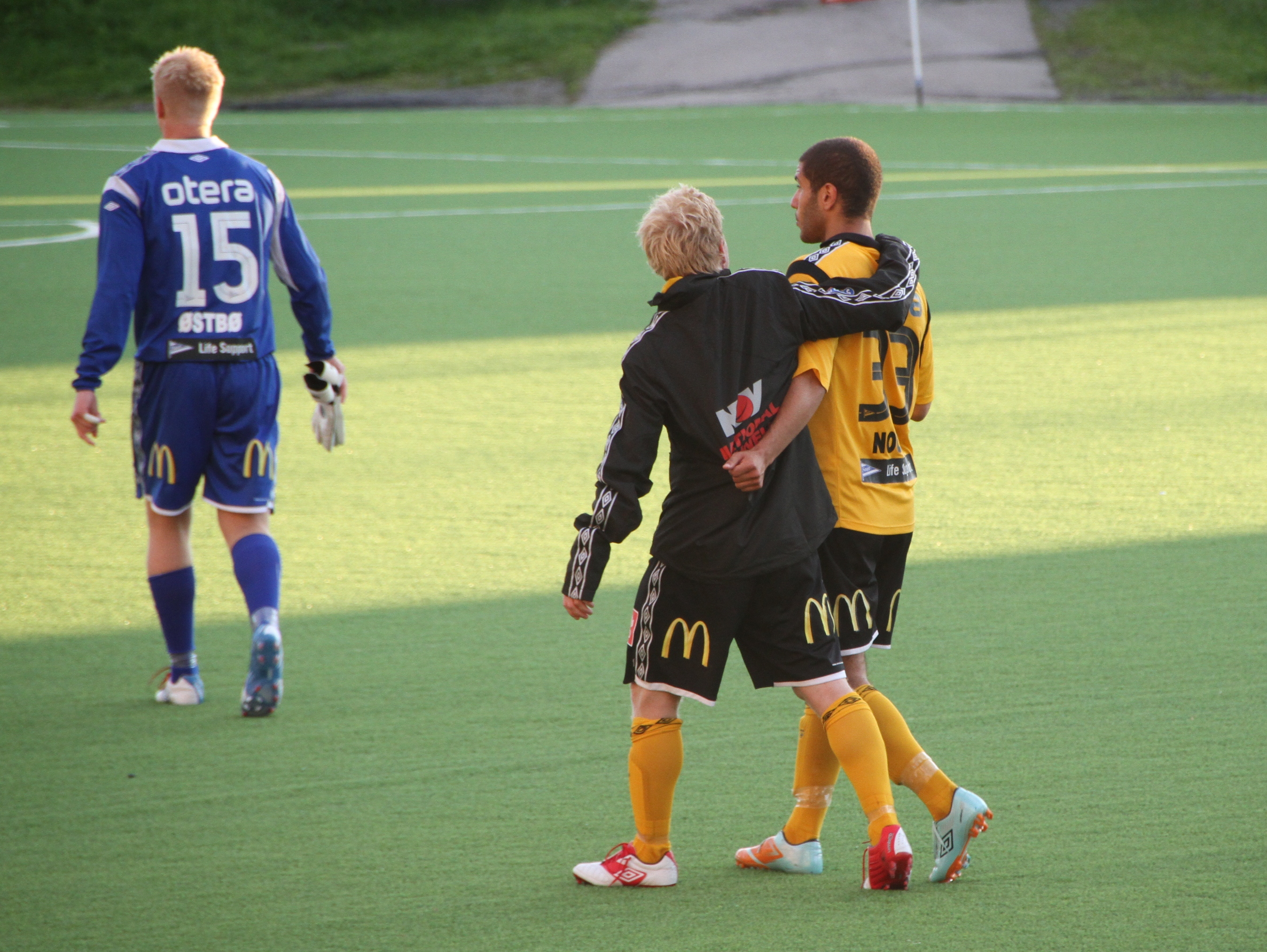 IK Start players after successful match between Start and Strømmen IF, August 2012. Strømmen stadium, Akershus, Norway.